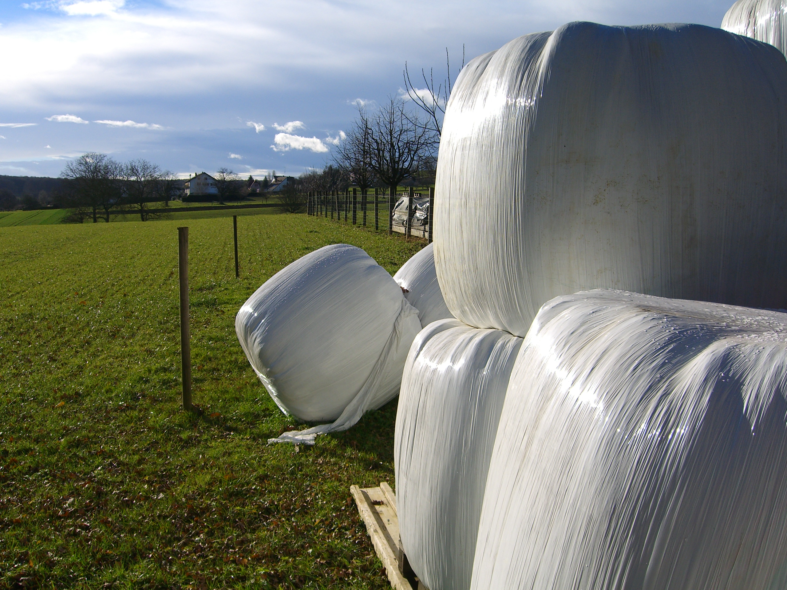 Silage bales somewhere in Allschwil or Schönenbuch, near Basel, Switzerland.